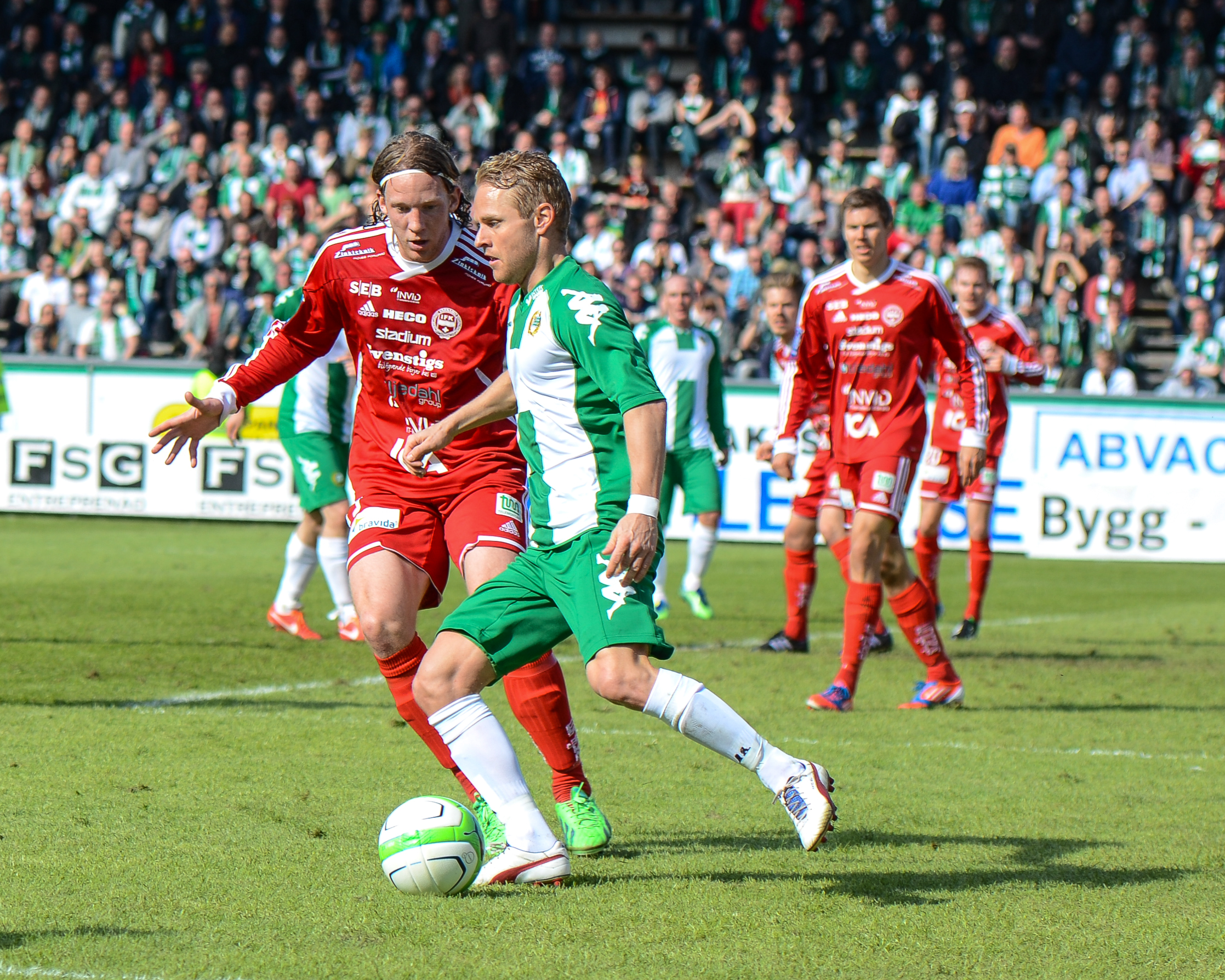 Hammarby IF vs IFK Värnamo, April 14, 2013. David Björkeryd (left) and Erik Sundin.